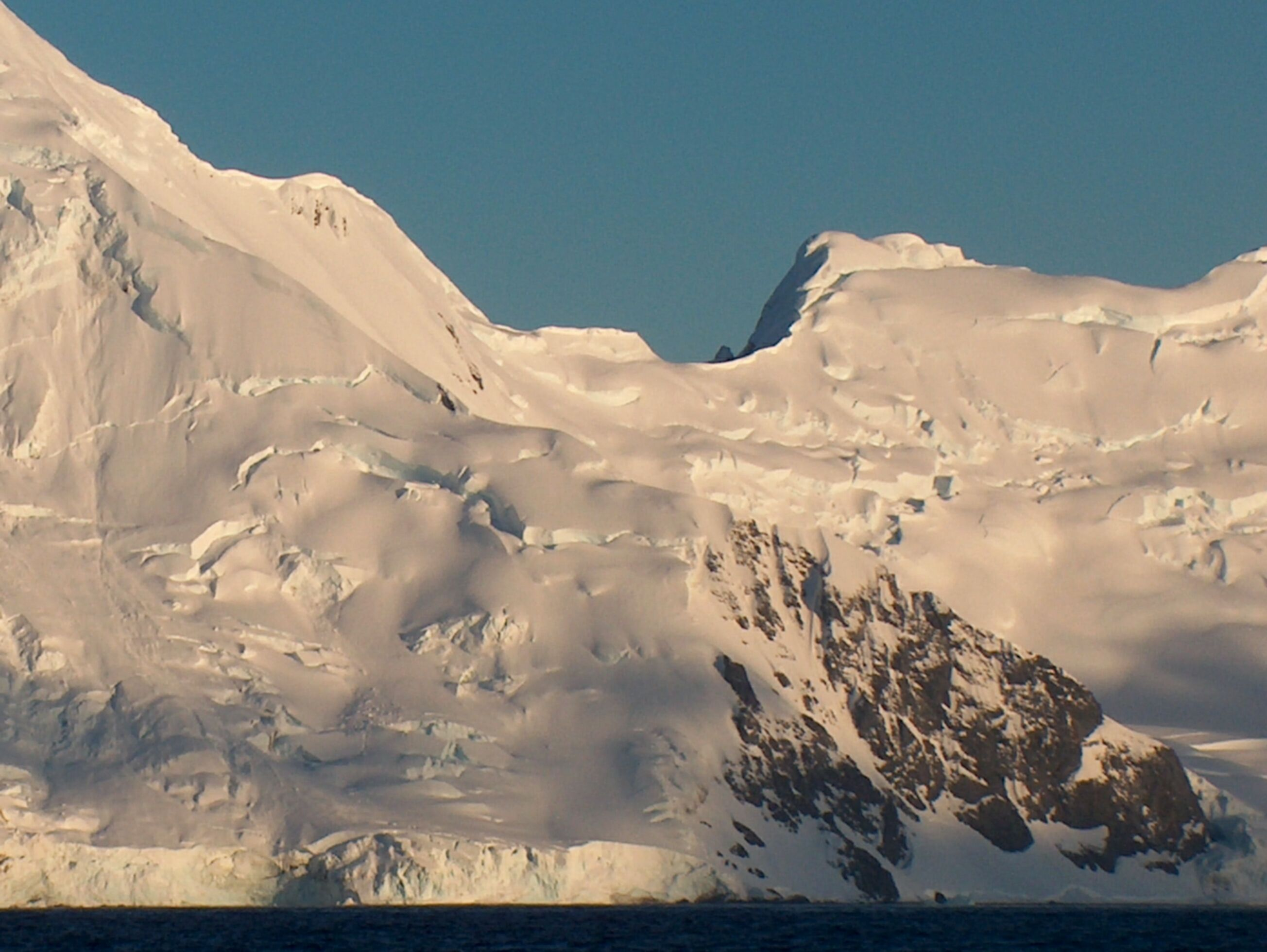 The Trigrad Map on Livinston Island.